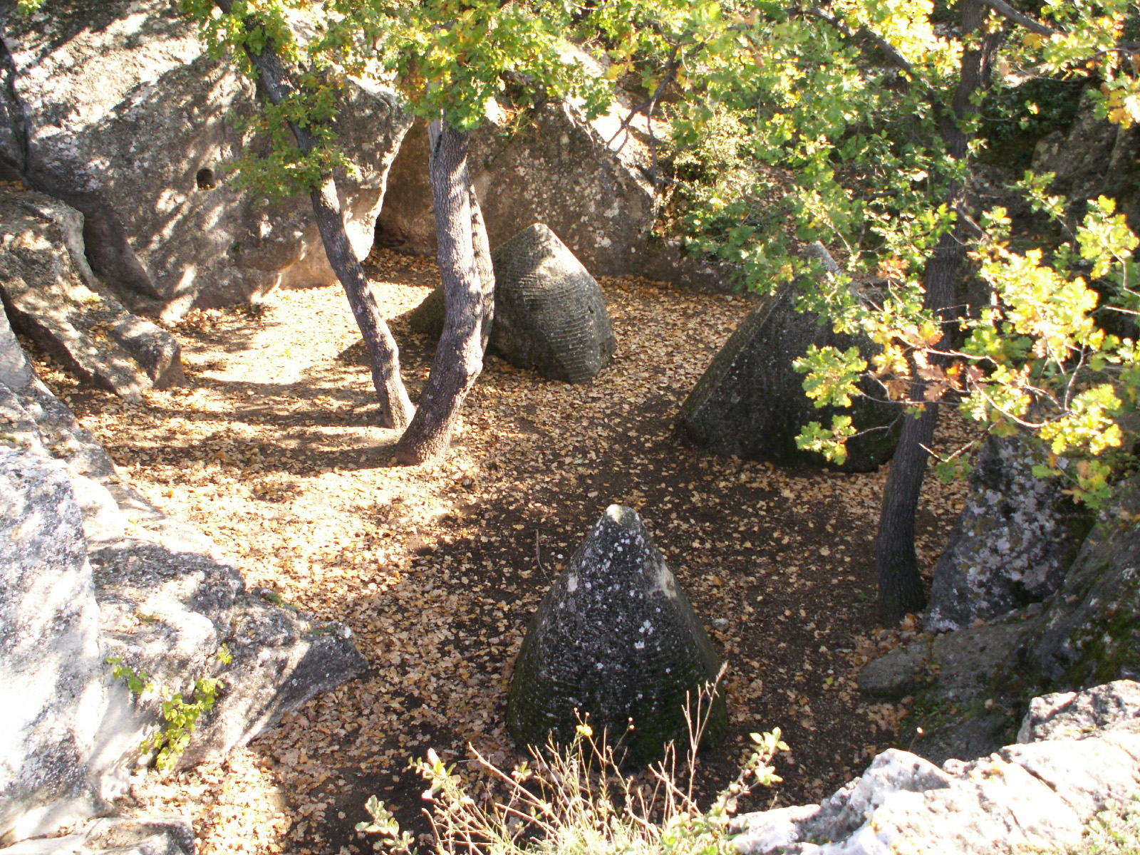 „Symposion Europäischer Bildhauer“, St.Margarethen – Burgenland/Austria, Kengiro Azuma